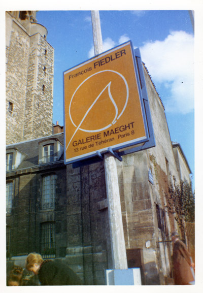 A sign on the streets of Paris advertising an upcoming Francois Fiedler show at Galerie Maeght